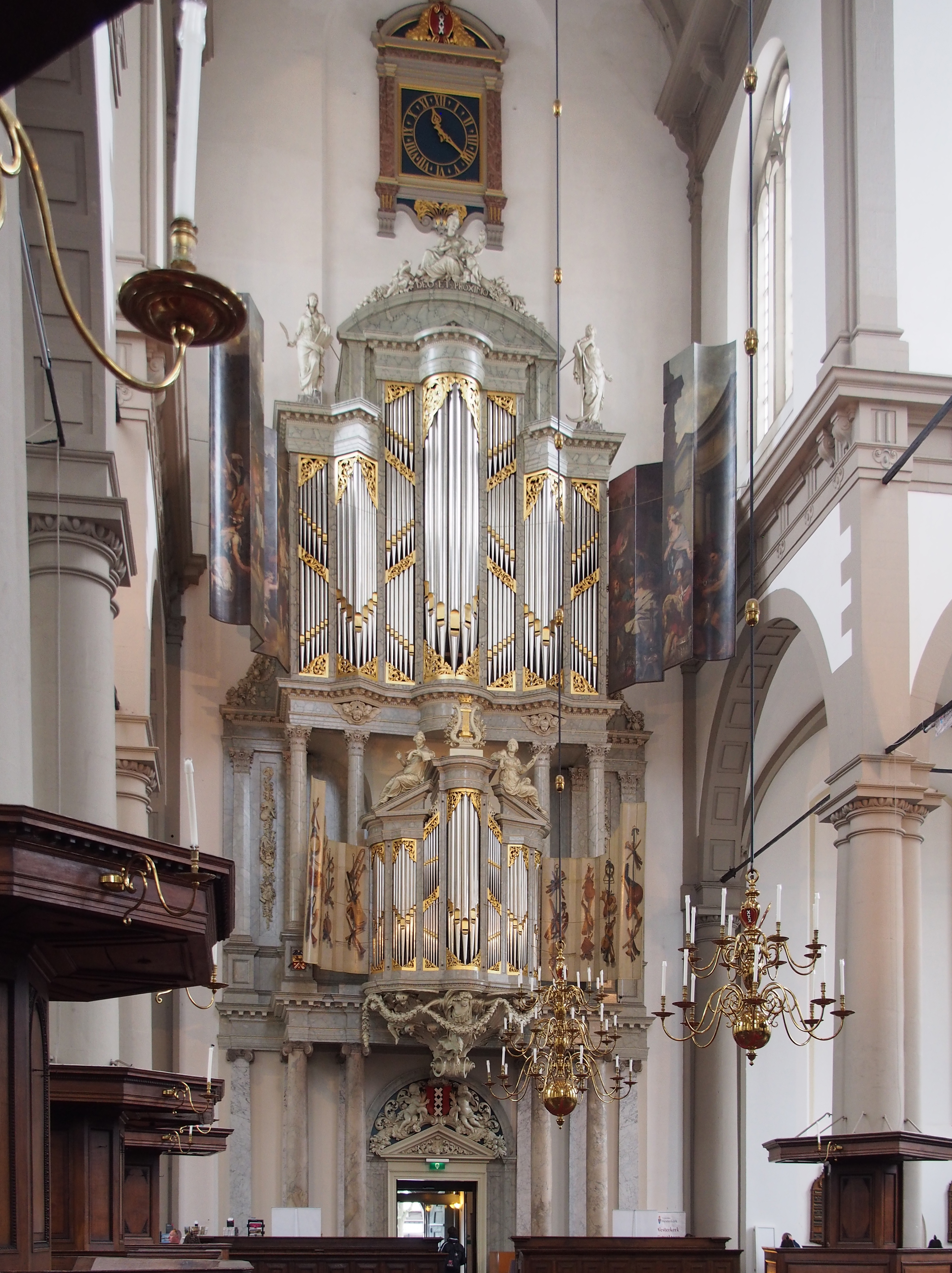 Pipe organ in the Westerkerk, Amsterdam. Doors by Gérard de Lairesse